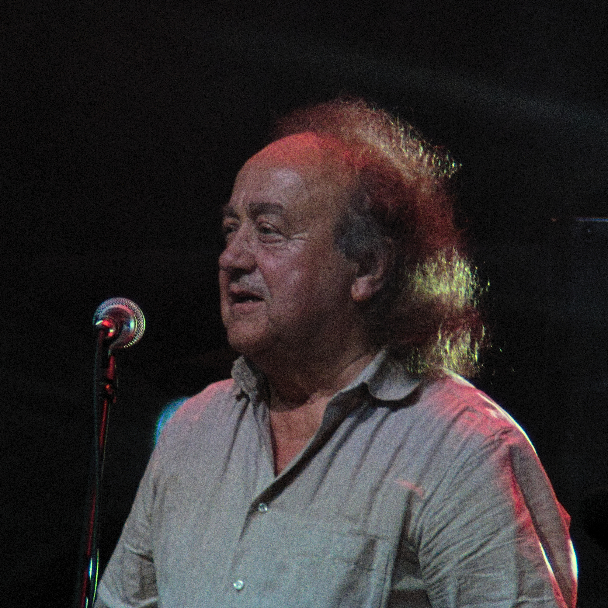 Józef Skrzek at stage during SBB concert "Freedom with us" in Katowice, Sejmu Śląskiego Square